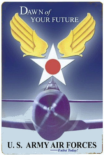 Dawn Of Your Future - United States Army Air Forces recruiting poster